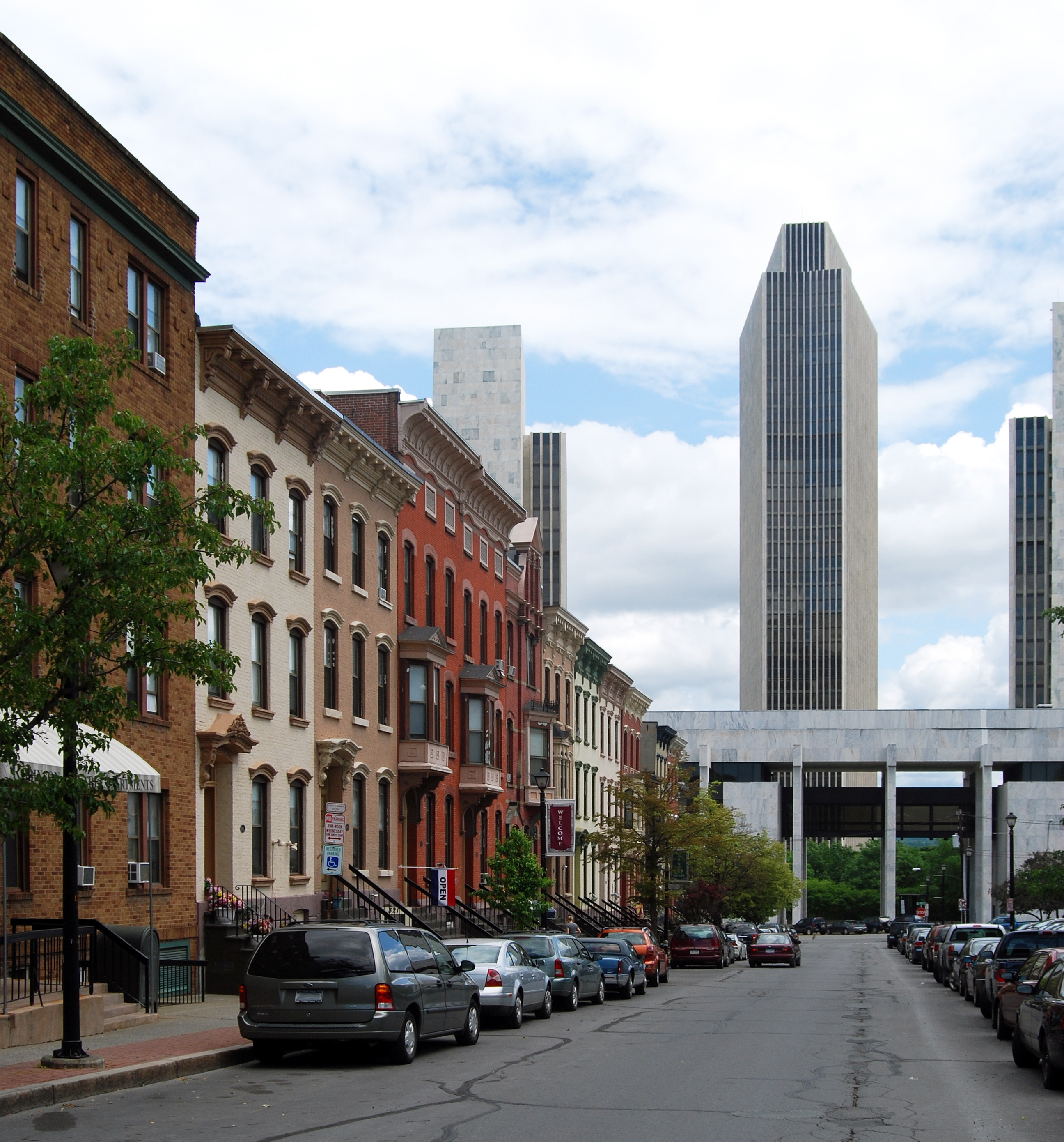 Rowhouses, built in the late 1800s, juxtaposed against the Empire State Plaza in Albany, New York, United States